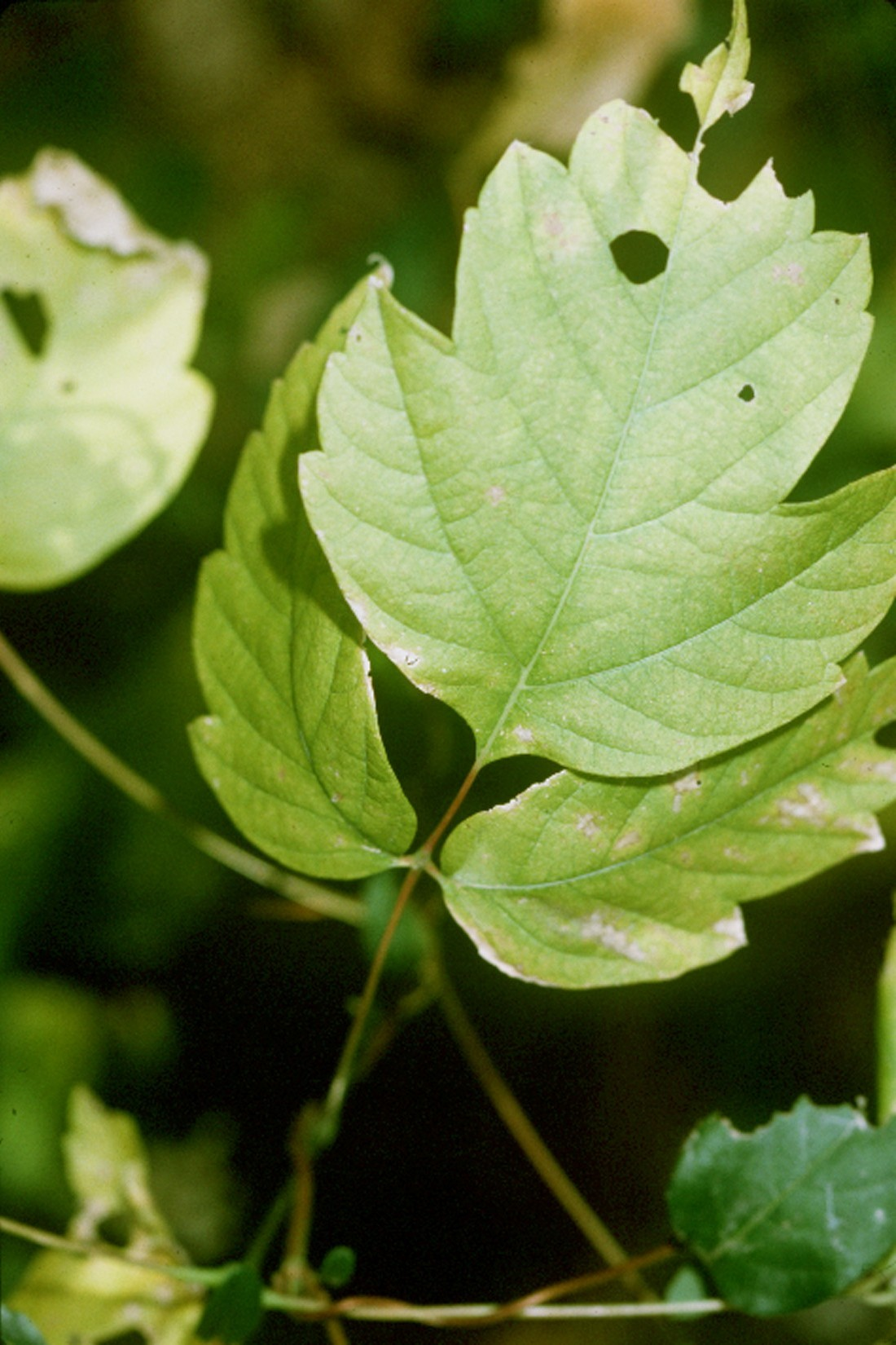 New Mexico Copperleaf. Leaf.